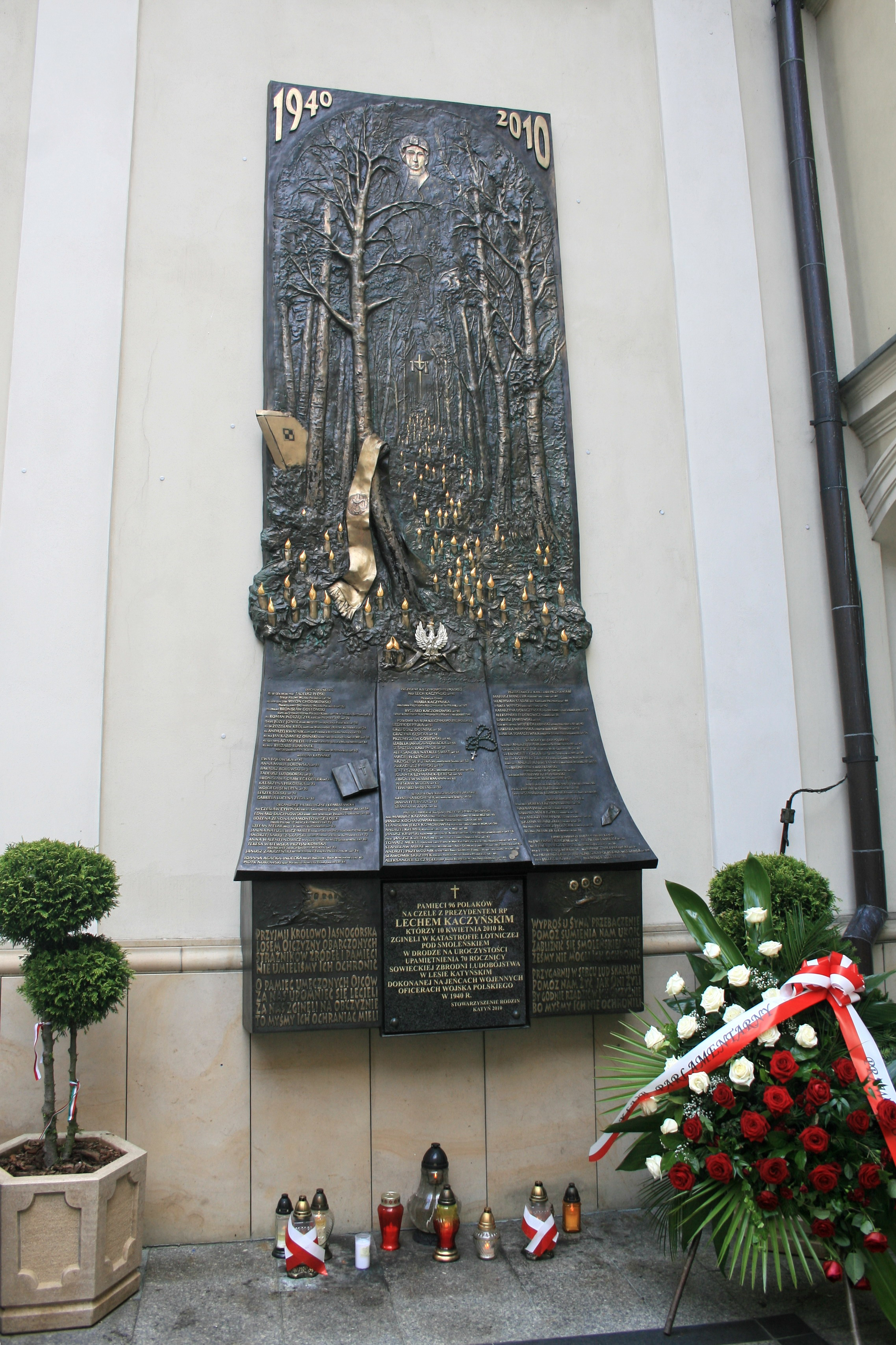 Epitaph of the Smolensk front of the Chapel of the Black Madonna of Jasna Gora, exposed and dedicated 3 May, 2012. Author Lech Dziewulski.